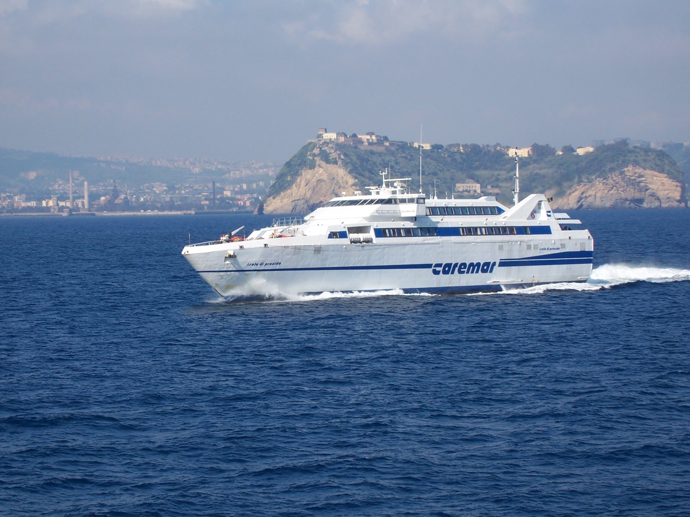 Hsc "Isola di Procida" ferry of the Caremar (Campania Regionale Marittima). In the background the island of Nisida (Gulf of Naples).